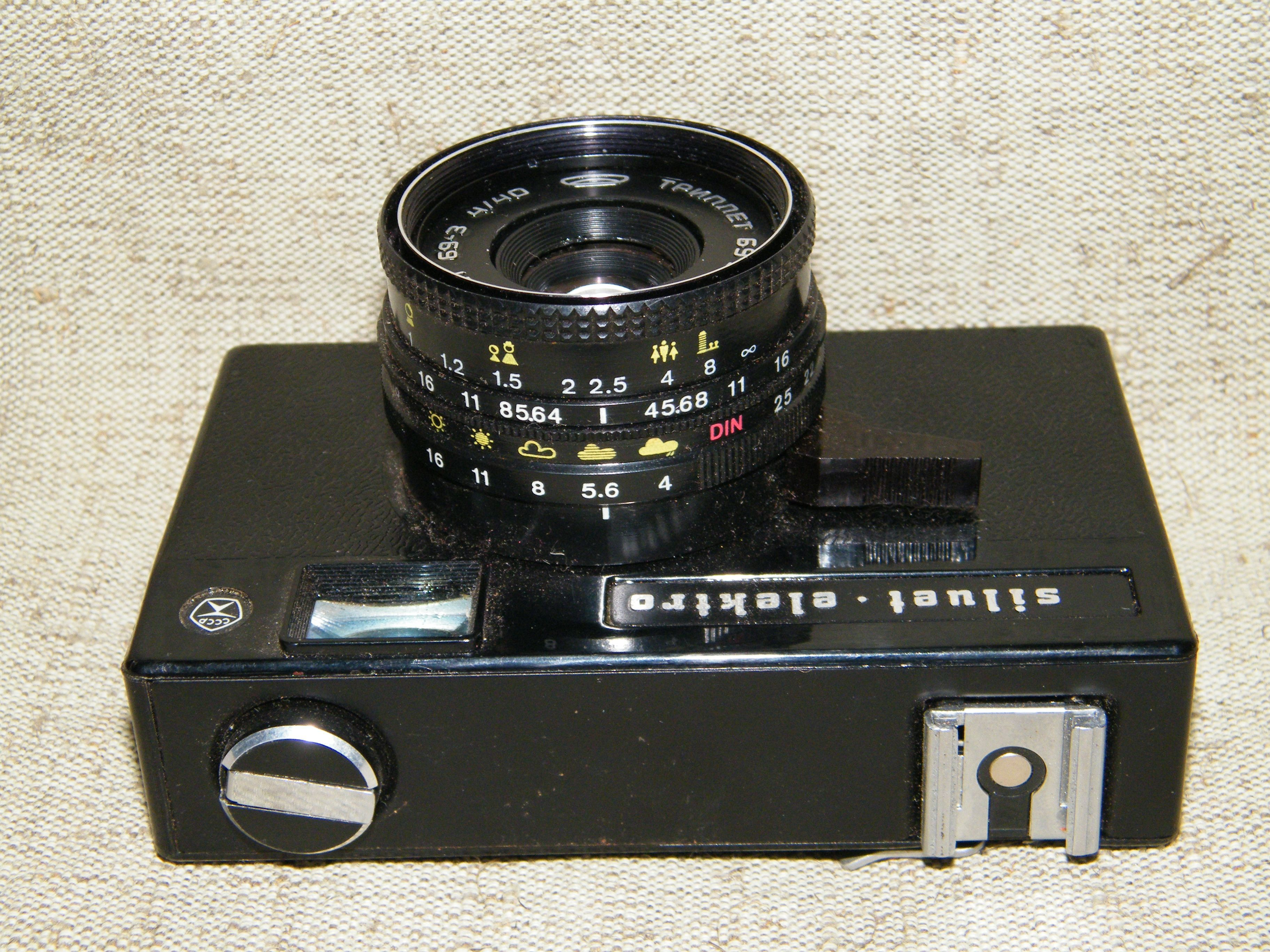 Силуэт-электро